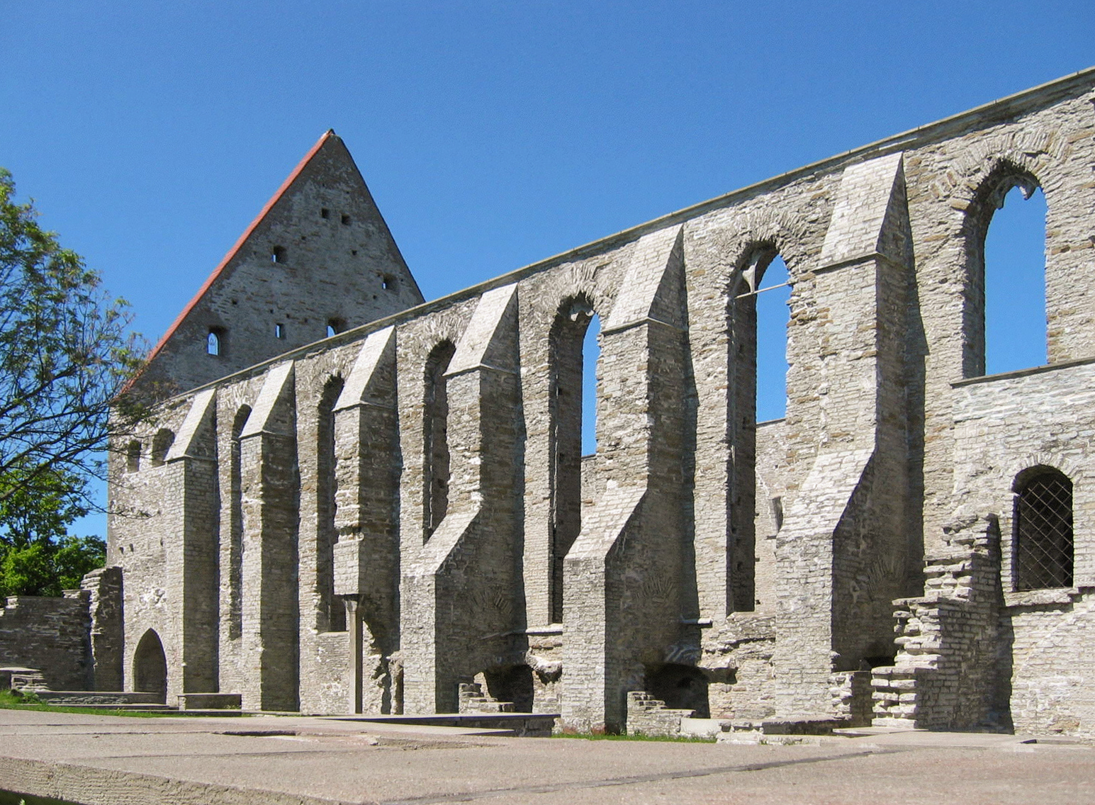 Ruins of the St. Bridget's Convent, Pirita, Tallinn, Estonia